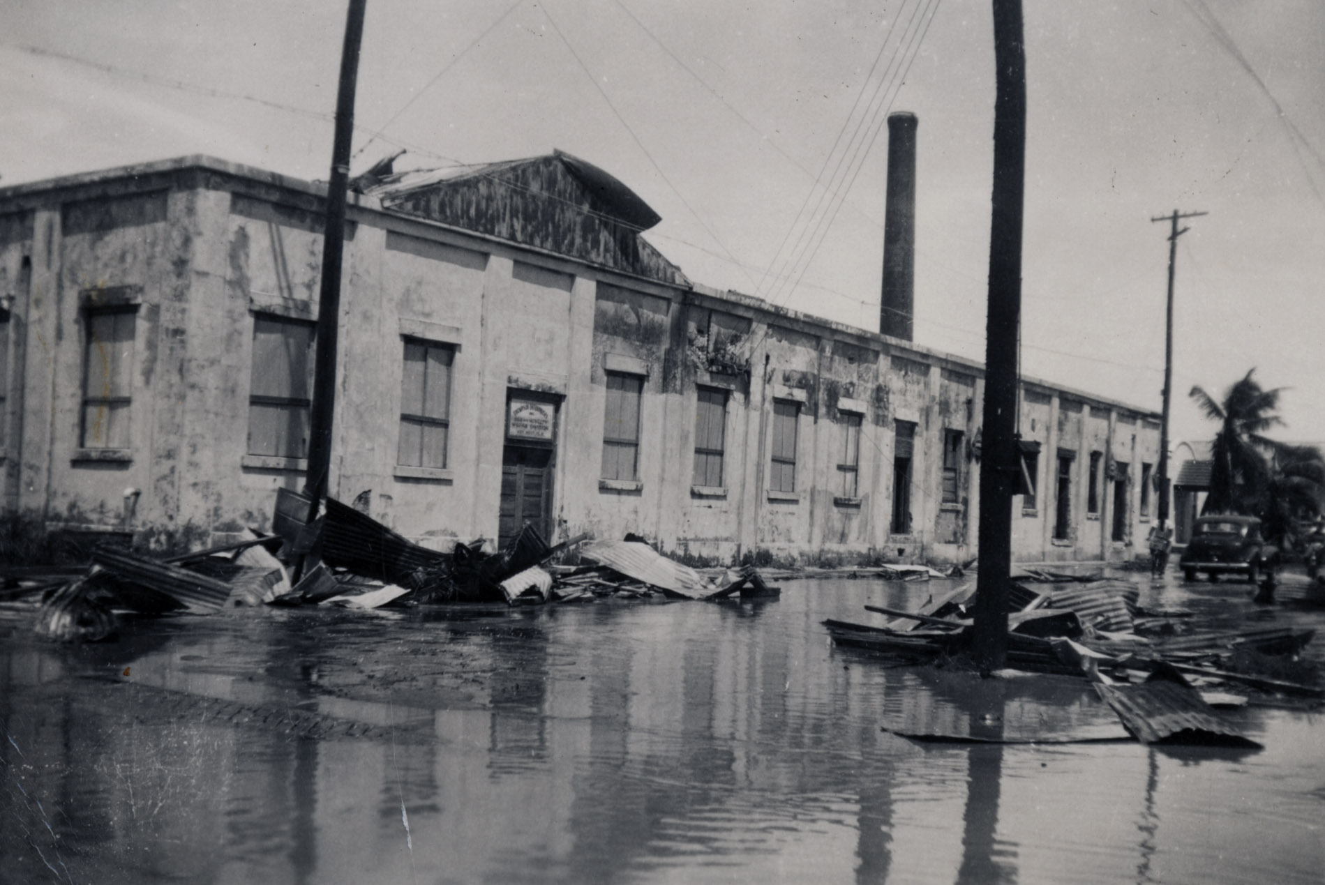 Damage at 807 Caroline Street by the 1948 Hurricane. From the Ida Woodward Barron Collection. Effects of the September 1948 Florida hurricane in Key West, Florida.